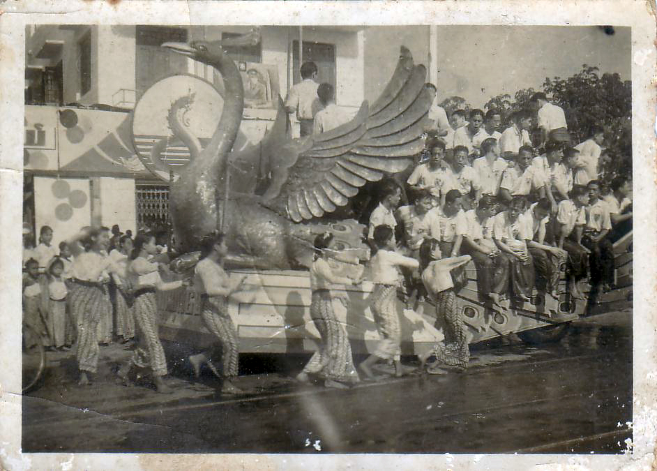 Nāga Cheroots girls dancing round a float in 1950s Thingyan, Mandalay, Burma